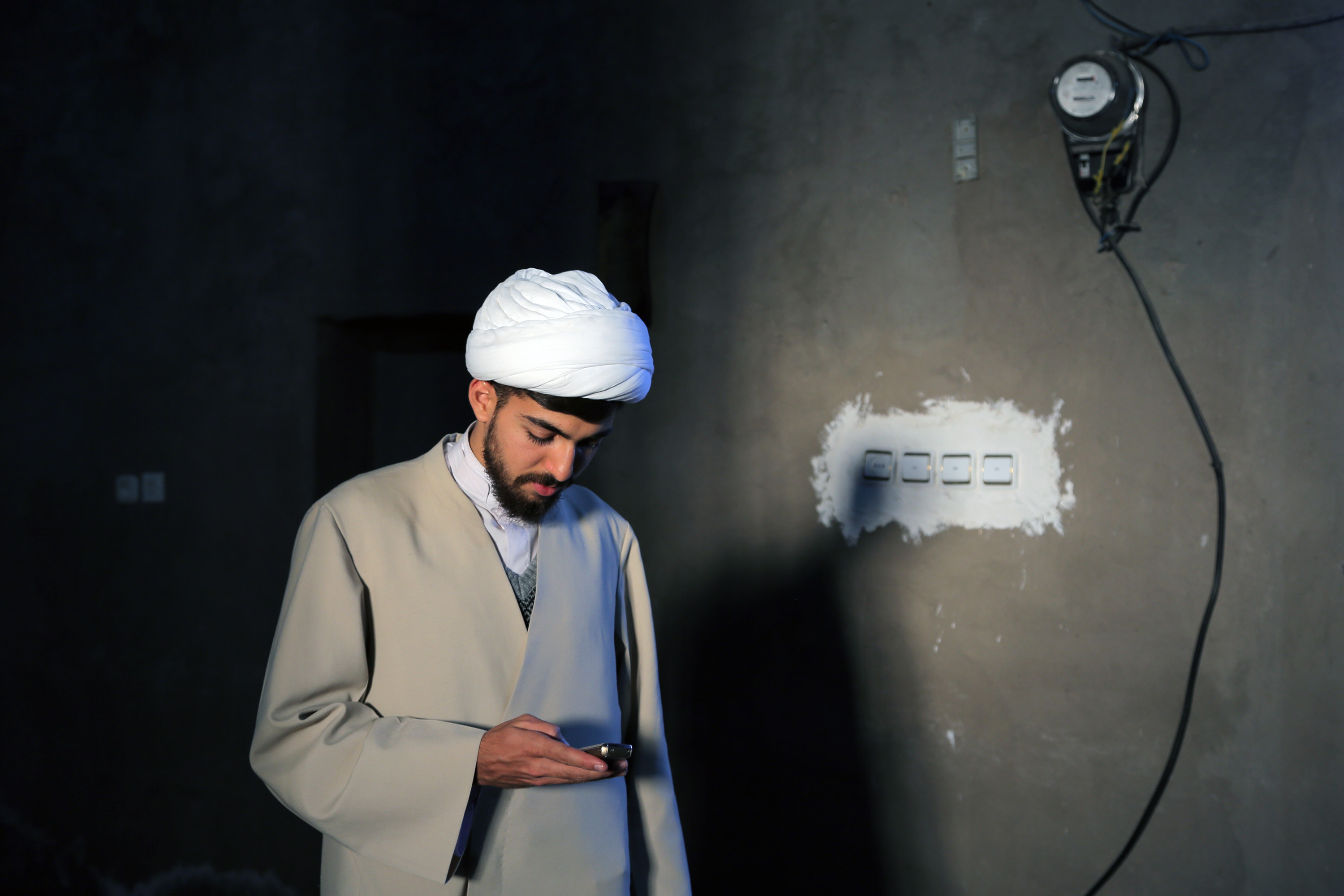 Clergy are some of the main and important formal leaders within certain religions.